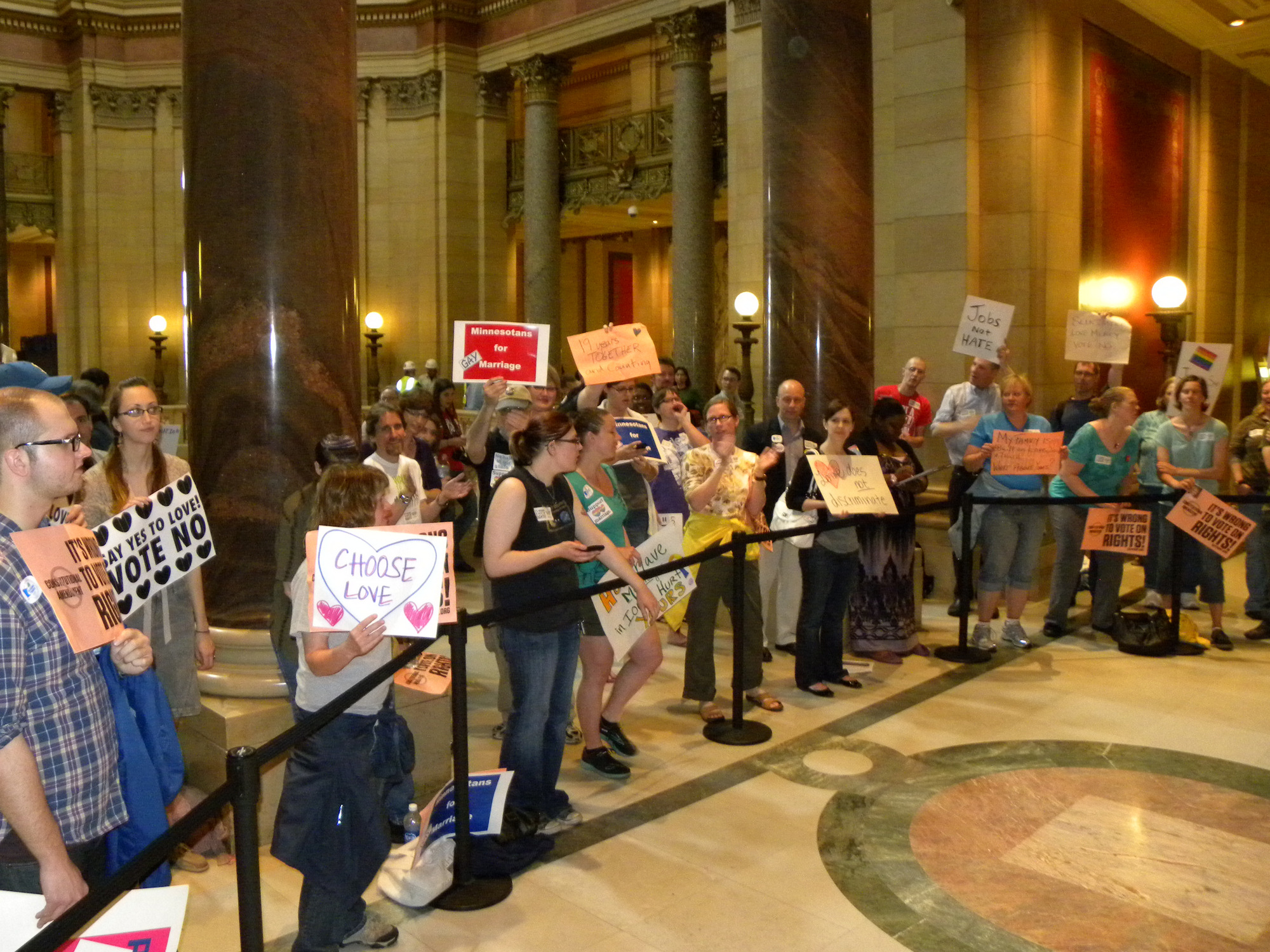 Protesters gathered inside the state capitol building in St. Paul, Minnesota, to protest against the upcoming vote by the Minnesota House of Representatives to put an anti-gay marriage amendment on the 2012 election ballot.